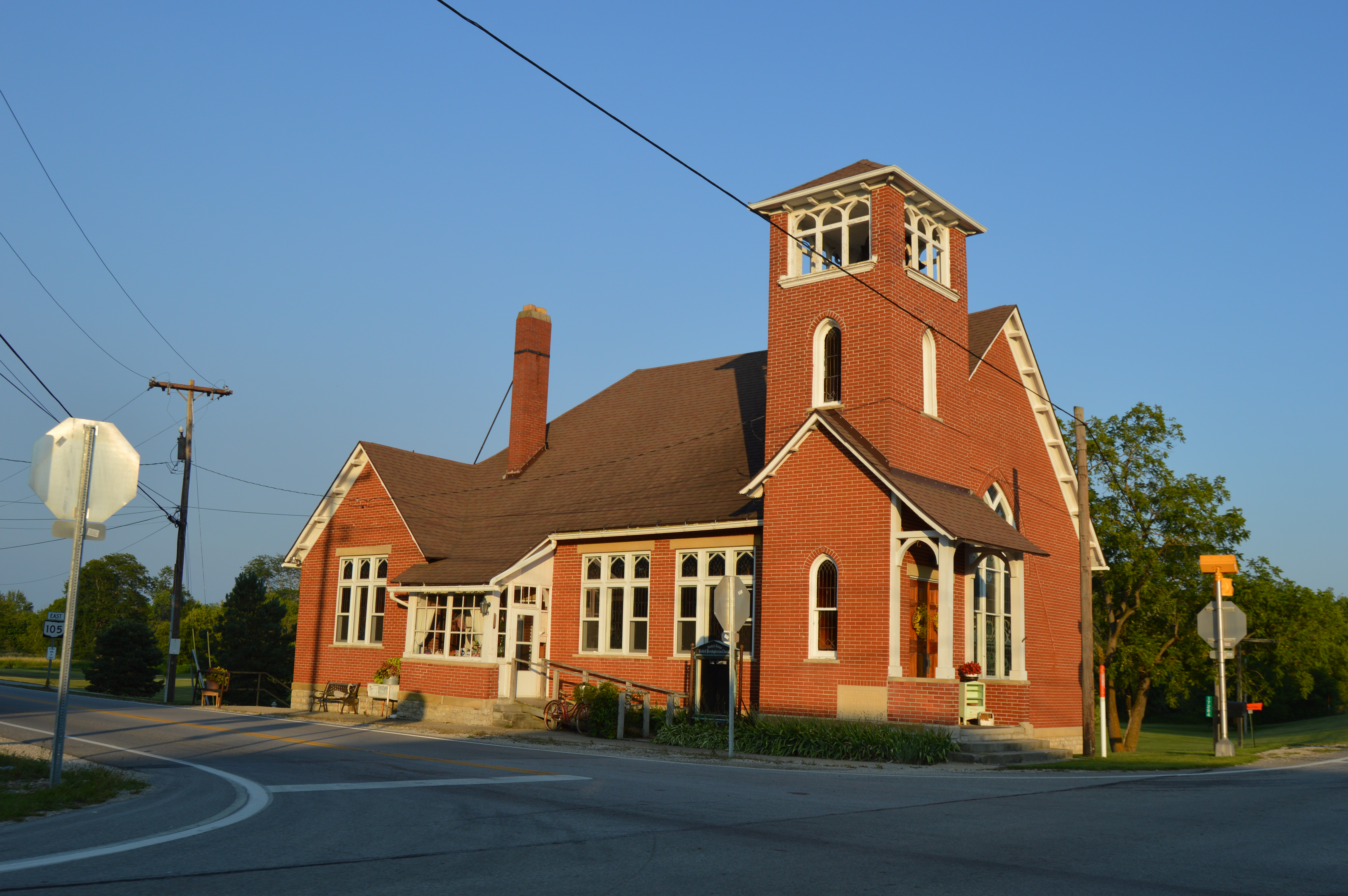 Front and northern side of the former Scotch Ridge United Presbyterian Church, located on the southeastern corner of the junction of State Routes 105 and 199 at Scotch Ridge in Webster Township, Wood County, Ohio, United States. Built in 1903, it has since been converted into a house.